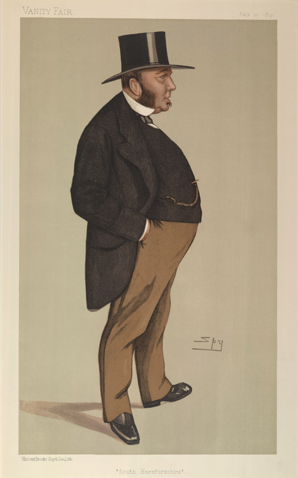 Statesmen No.581: Caricature of Mr M Biddulph MP. Caption reads: "South Herefordshire"